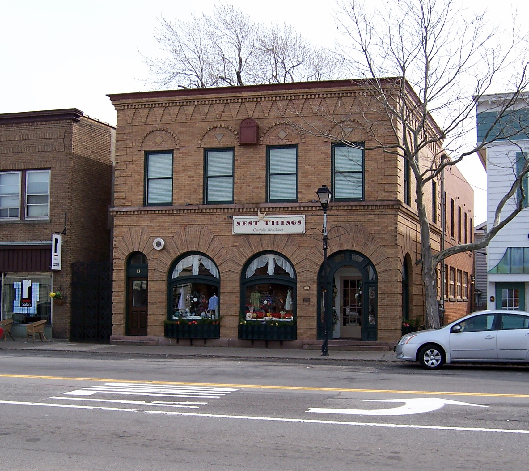 The Jayne and Mason Bank Building in the village of Webster, New York. Built in 1906, it is listed on the National Register of Historic Places. It currently serves as a second-hand shop called "Nest Things". New York State Route 404 runs past the building in the foreground.